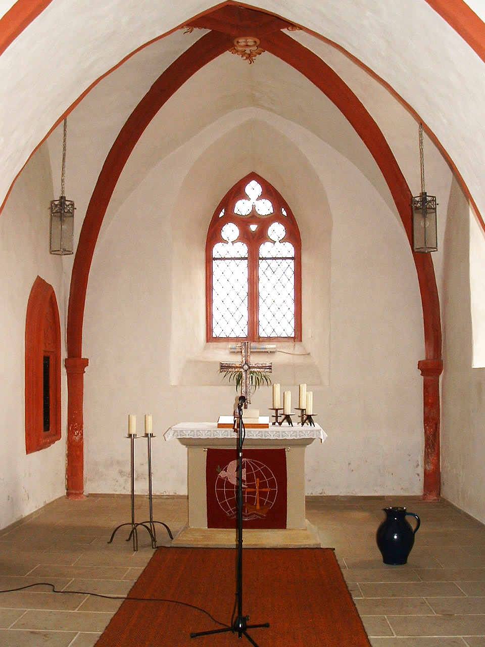 Protestant church Hirschfeld, Hunsrück, Germany, Rhineland-Palatinate, tabernacle and altar